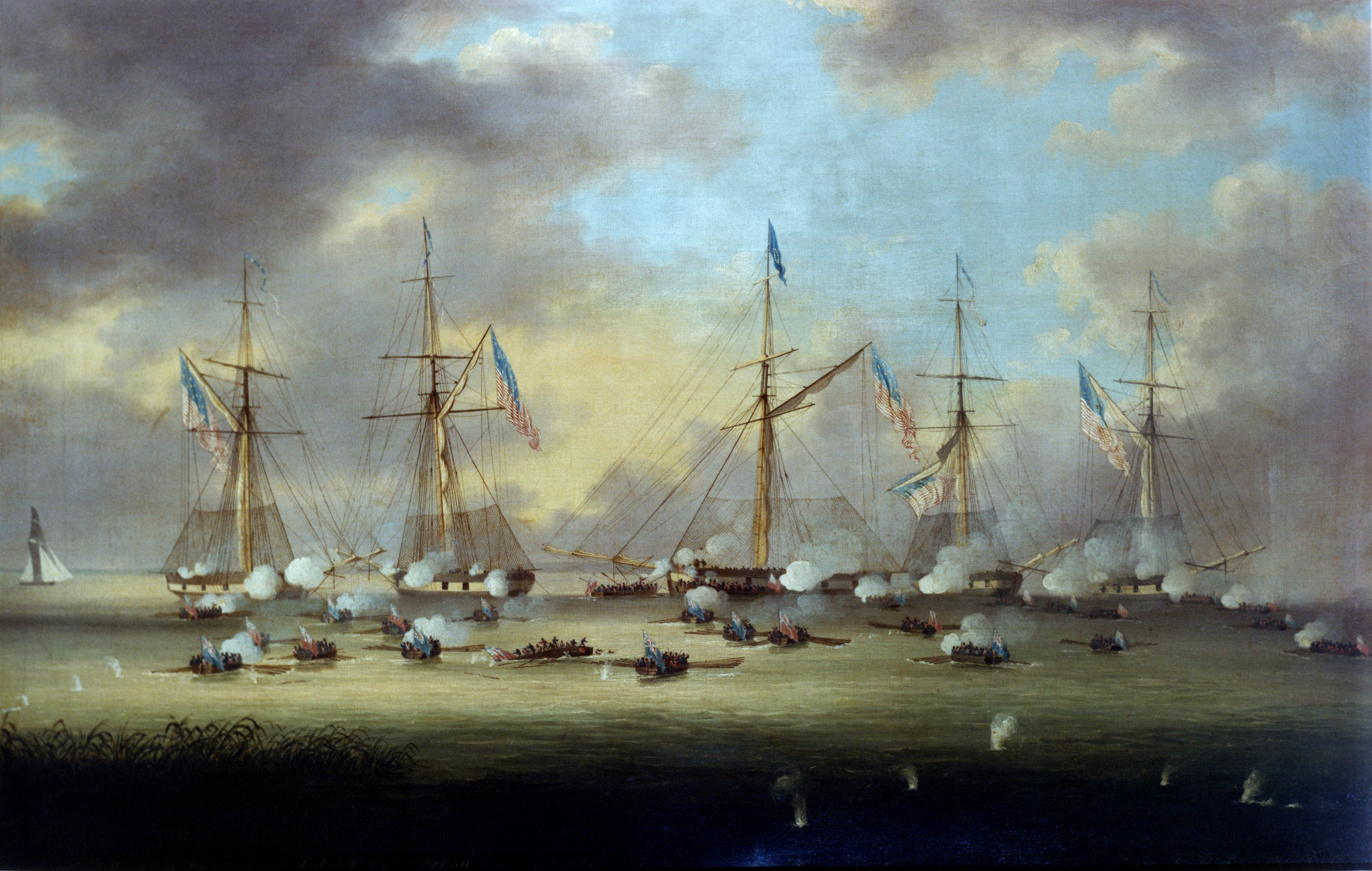 Painting depicting the Naval Battle of Lake Borgne, Louisiana, between U.K. and U.S. forces in the War of 1812. Oil on Canvas, 25.5" x 37.5", by Thomas L. Hornbrook (active 1836-1844). It depicts the British boat attack on five U.S. Navy gunboats, commanded by Lieutenant Thomas ap Catesby Jones, USN, during the early stages of the New Orleans campaign. The American gunboats (Numbers 5, 23, 156, 162 and 163) were captured after a stiff fight. This action helped delay the British advance on New Orleans, which ended with their defeat by Major General Andrew Jackson's defending army on 8 January 1815. The original painting is in the U.S. Naval Academy Museum, Annapolis, Maryland. It was donated to the Museum in 1945 by Commander Walter Karig, USNR, Lieutenant Welbourn Kelley, USNR, and Commander E. John Long, USNR.